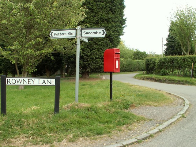 The postbox at Sacombe Green